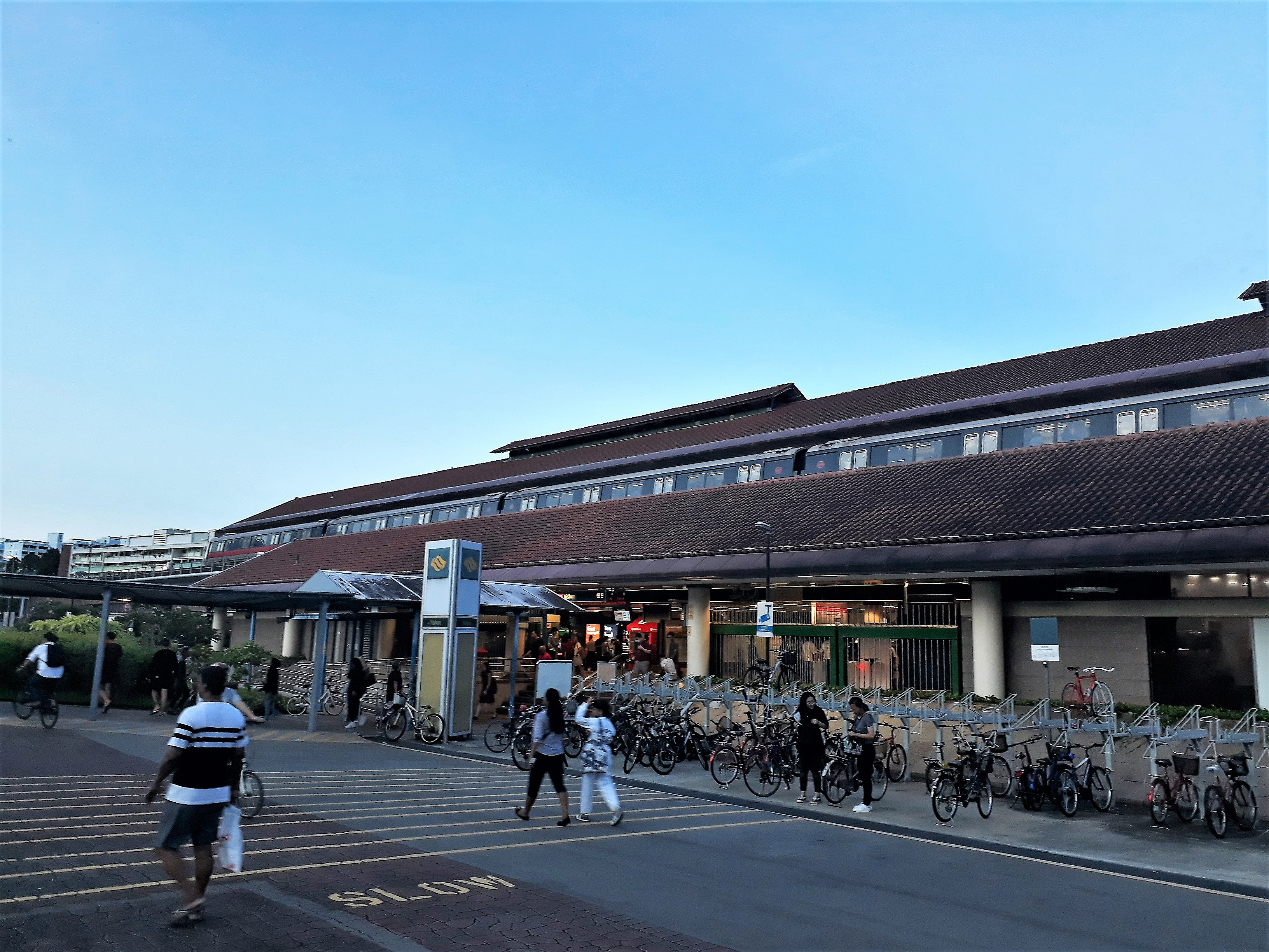 Exit A of Yishun MRT Station